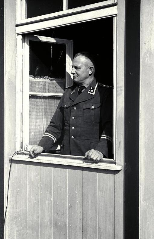 The double "piston rings" on both cuffs (of sleeves) on the uniform jacket identify the carrier of the uniform as SS-Mann (with the rank of SS-Hauptscharführers (OR-7)) in the position of a "SS-Stabsscharführer" or "Spiess" (company sergeant).